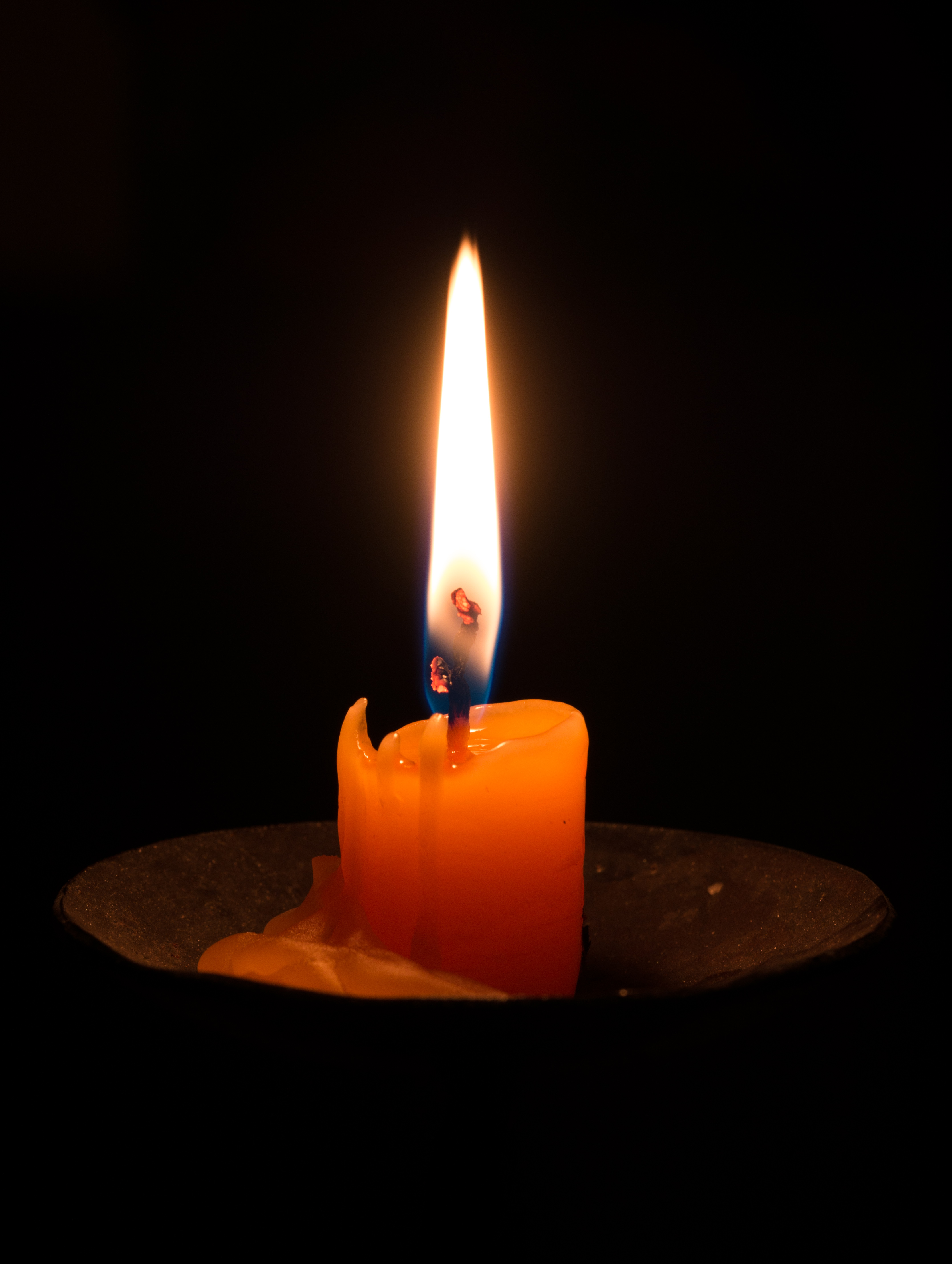 Candle lighten-up for Slava celebration, 20th January (John the Baptist day). This photograph was taken with a Panasonic Lumix DMC-G85/G80